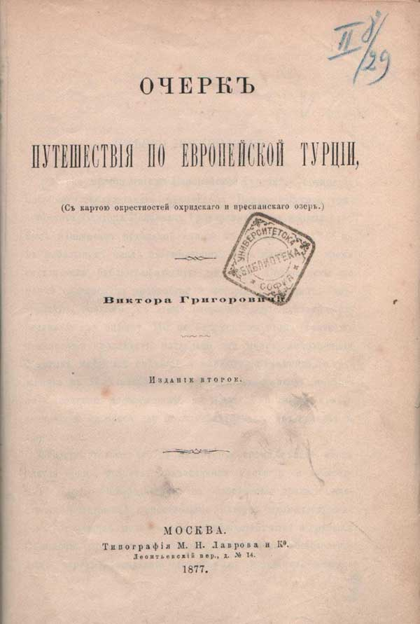 Ocherk Puteshestviya Po Evropeyskoy Turtsii